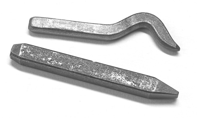 Two fineness stamps (length:8.5 cm)